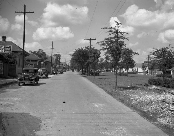 New Orleans, 1938. View of Claiborne Avenue at Frenchmen Street, looking upriver